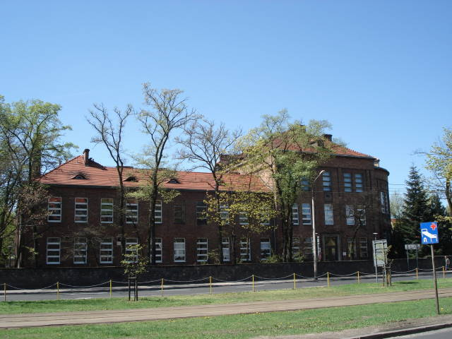 Heliodor Święcicki Clinical Hospital No. 2 of the Poznan University of Medical Sciences, didactic building (ca. 1940-1944)